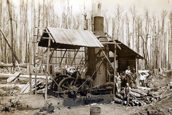 Washington Steam Winch in operation, 1939 Salvage logging on the Toorongo Plateau near Noojee